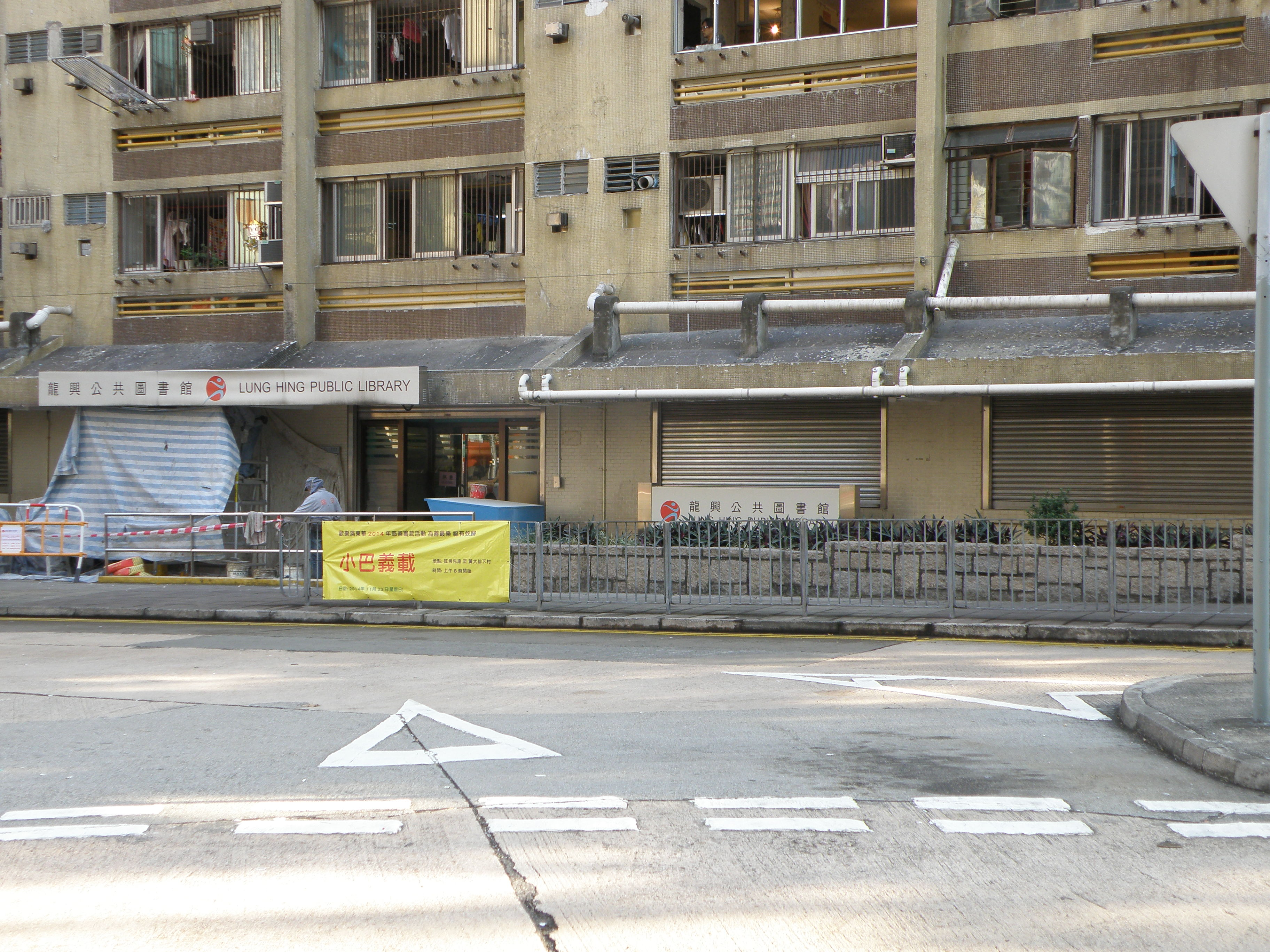 Lung Hing Public Library in Wong Tai Sin, Hong Kong.